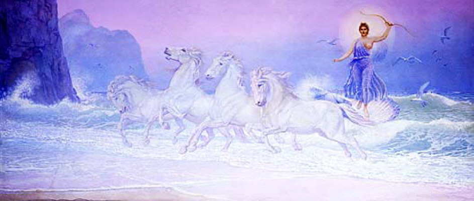 "Diana of the Tides" Mural by John Elliott... Image courtesy of Smithsonian Archives.